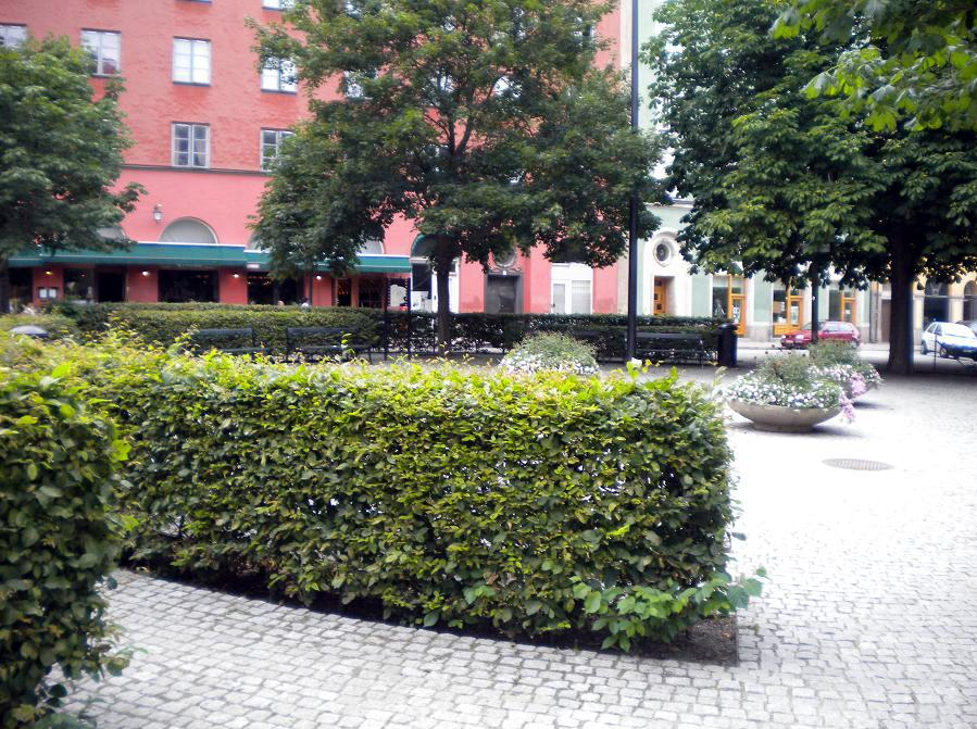 Greta Garbo Place Greta Garbos torg along Katarina bangata (street) east of Götgatan on the Southern Isle (Södermalm)Place: Stockholm, Sweden